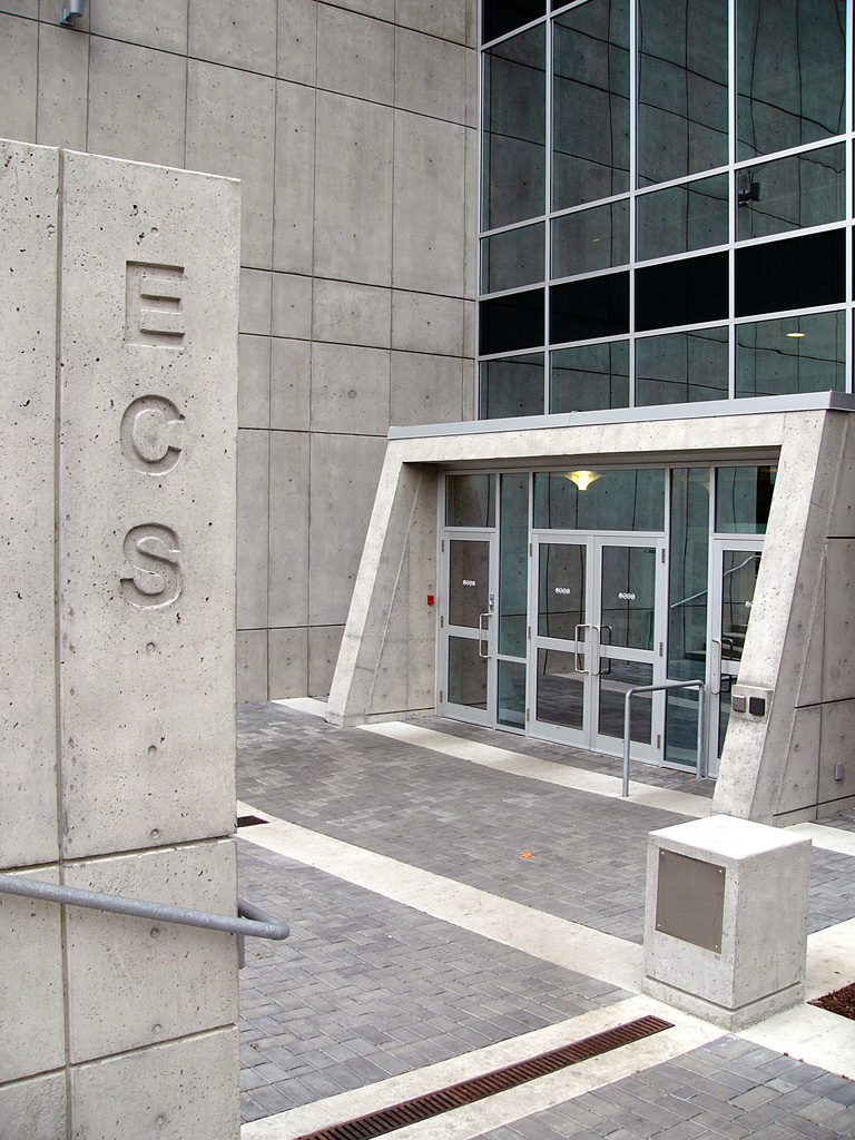 University_of_Victoria